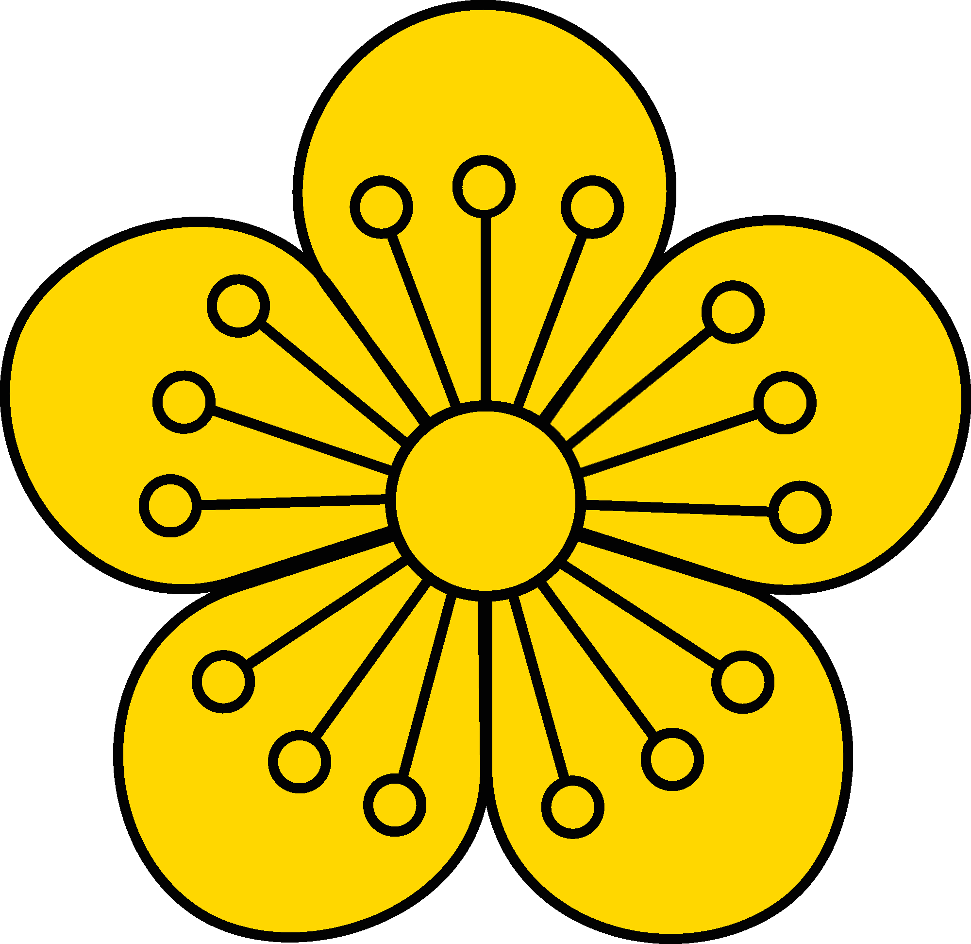 Ihwamun, The Imperial Seal of Korea